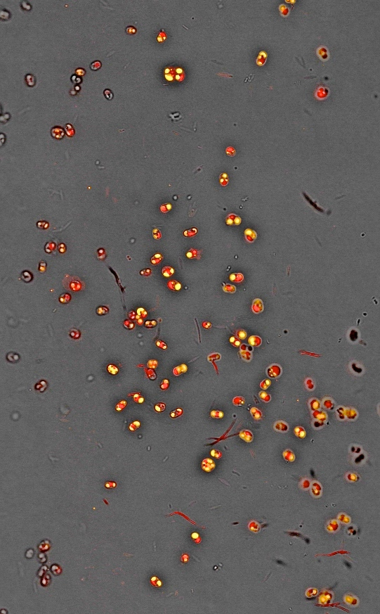 Oil accumulation in Nannochloropsis cultures. Confocal microscopy image of Nannochloropsis gaditana cells grown in standard f/2 medium without the addition of a nitrogen source for 6 days. The sample was stained using nile red. In red chlorophyll autofluorescence, in yellow the signal of nile red bound to neutral lipids (oil). The picture was shot by Elisa Corteggiani Carpinelli and the method used is the same described in Corteggiani Carpinelli, E. et al., (2013) "Chromosome scale genome assembly and transcriptome profiling of Nannochloropsis gaditana in nitrogen depletion". Molecular Plant.